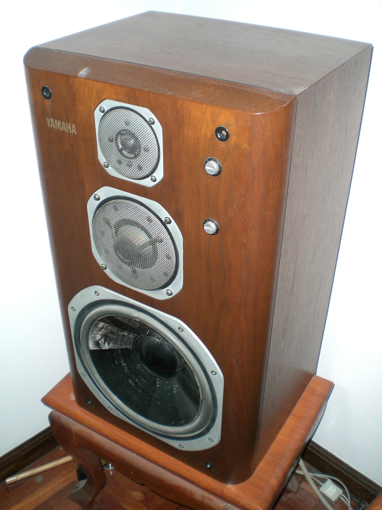 Yamaha NS-2000 Speaker, front top right view.